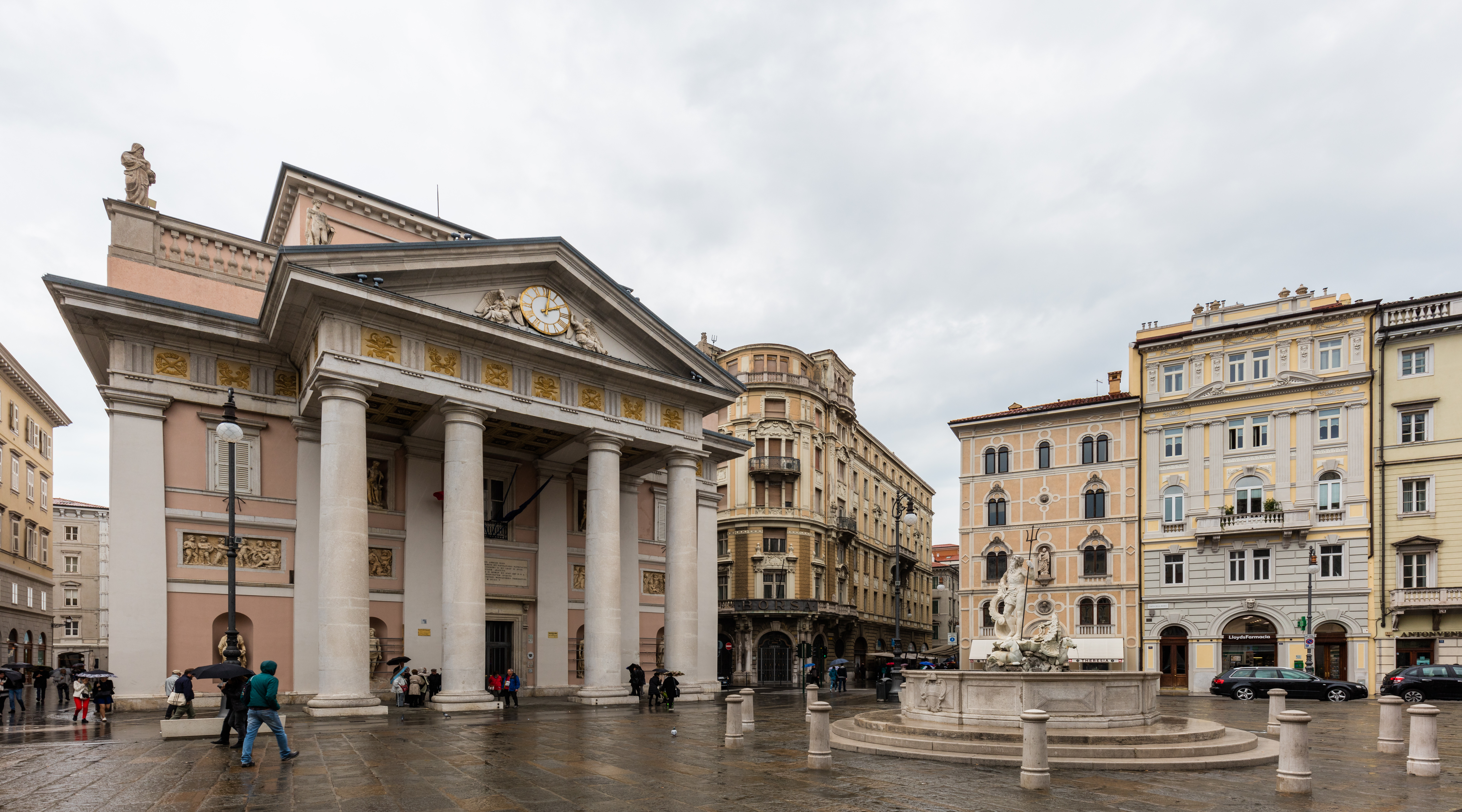 Stock Exchange Square, Trieste, Italy